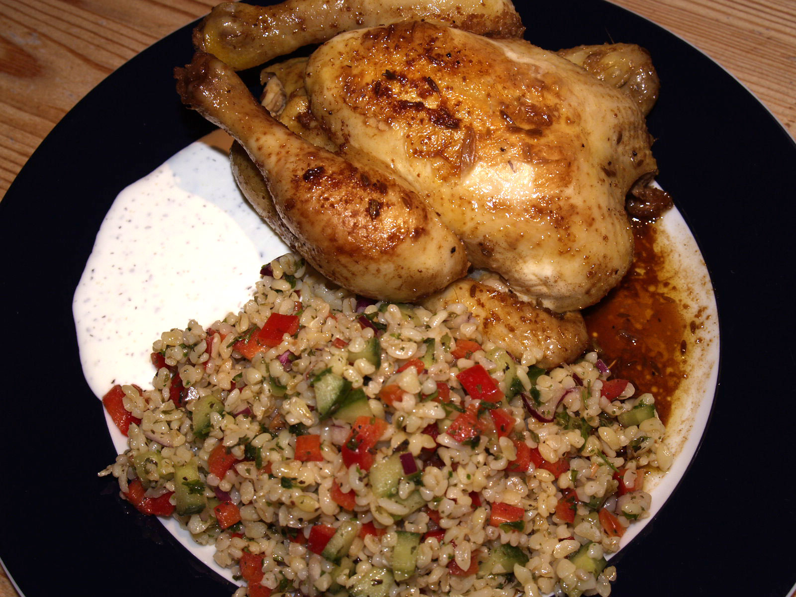 Poussin med tabbouleh og myntedressing